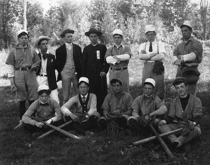 Photograph, Baseball team, L'Assomption College, L'Assomption?, Quebec, Canada, 1908, Wm. Notman & Son, Silver salts on paper mounted on paper, 8 x 5 cm